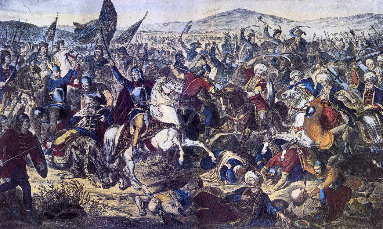 Painting of the Battle of Kosovo, dated 1870, by Adam Stefanović. Prince Lazar is seen dying with his horse.